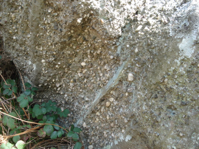 Puddingstone outcrop on Coppet Hill Puddingstone is common in this area of the Wye valley from here towards Monmouth. Some forms were 'mined' and shaped into millstones for their abrasive qualities.